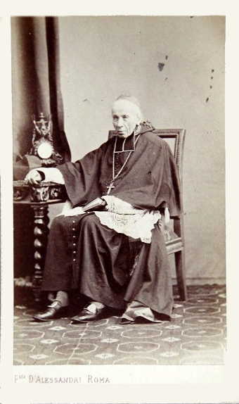 Fratelli D'Alessandri: Cardinal Alexis Billiet (1783-1873). Picture taken in 1869 during the First Vatican Council, where the sitter attended as Council Father.